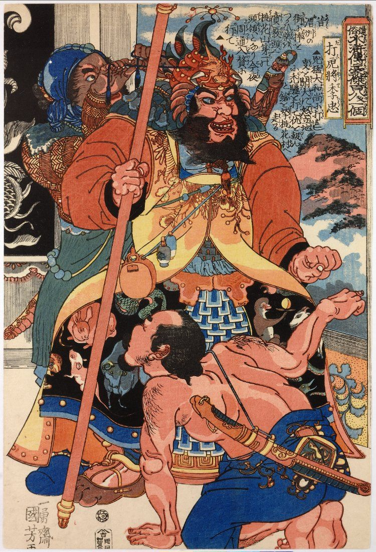 Li Zhong (李忠) with by two retainers, one fastening Li Zhong's headgear.